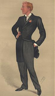 Caricature of English actor Herbert Beerhohm Tree. Caption read "Mr Herbert Beerbohm Tree".